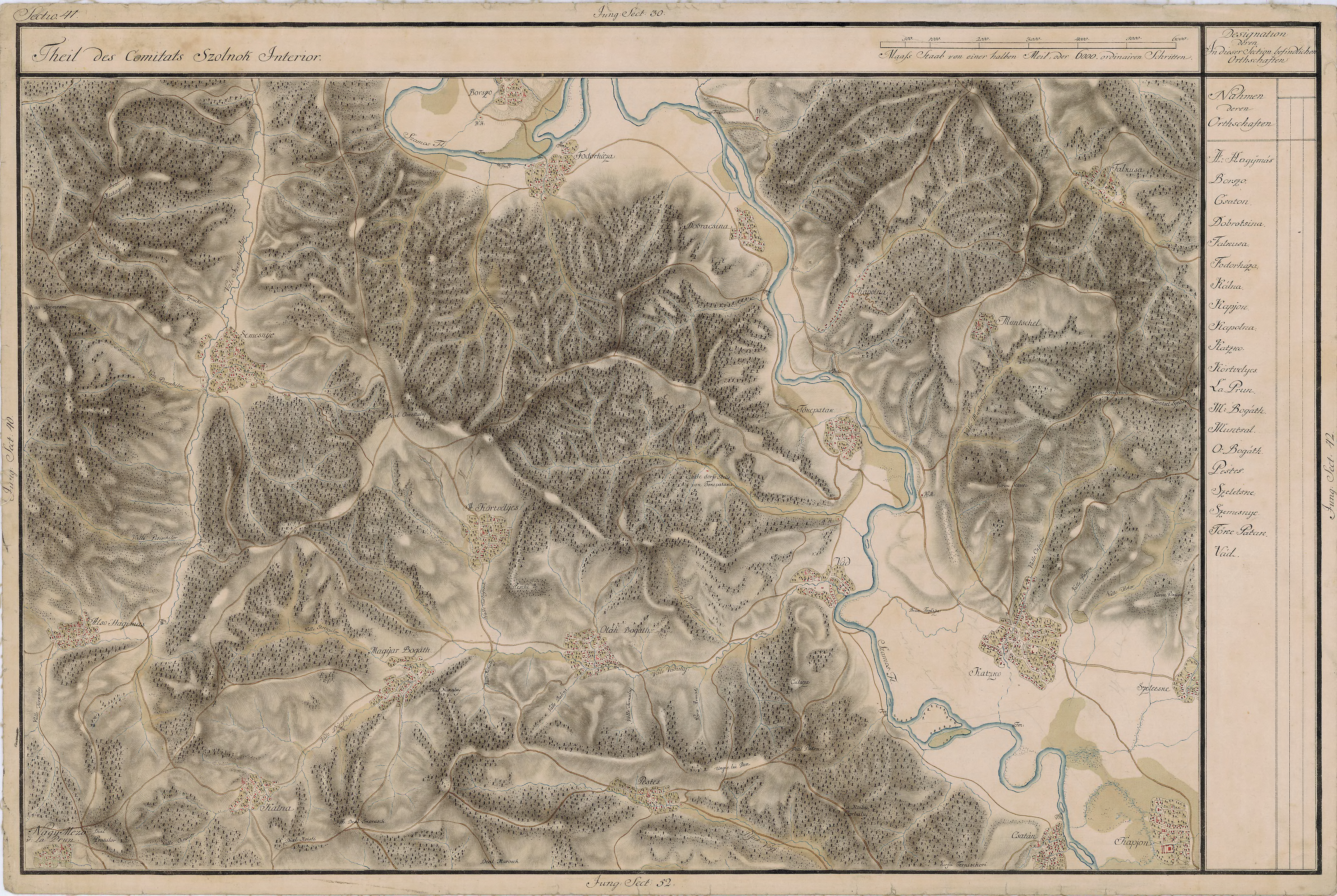 Grand Duchy of Transylvania, 1769-1773. Josephinische Landaufnahme pg.041